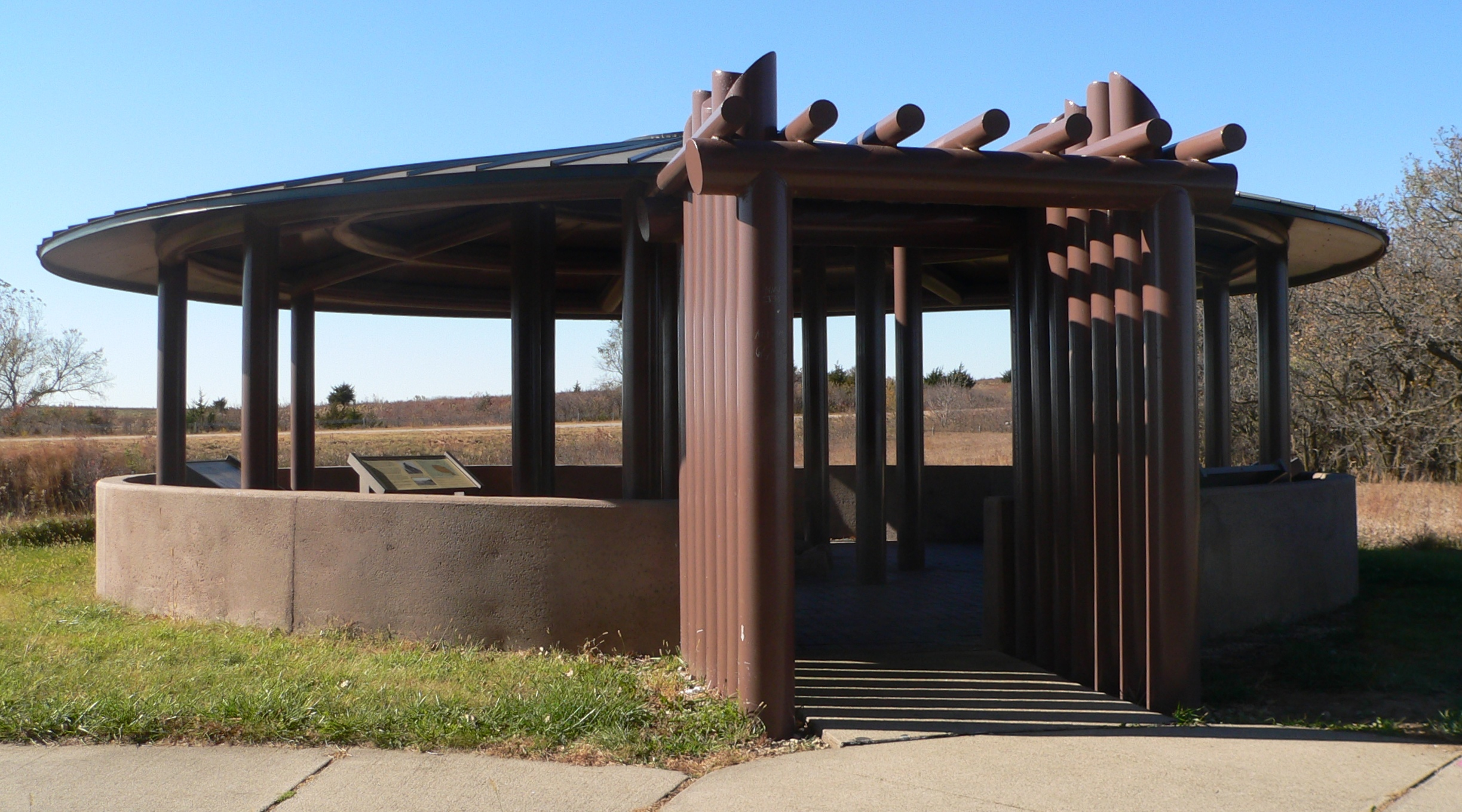 Shelter at Blackbird Overlook on U.S. Highway 75 in northern Burt County, Nebraska.